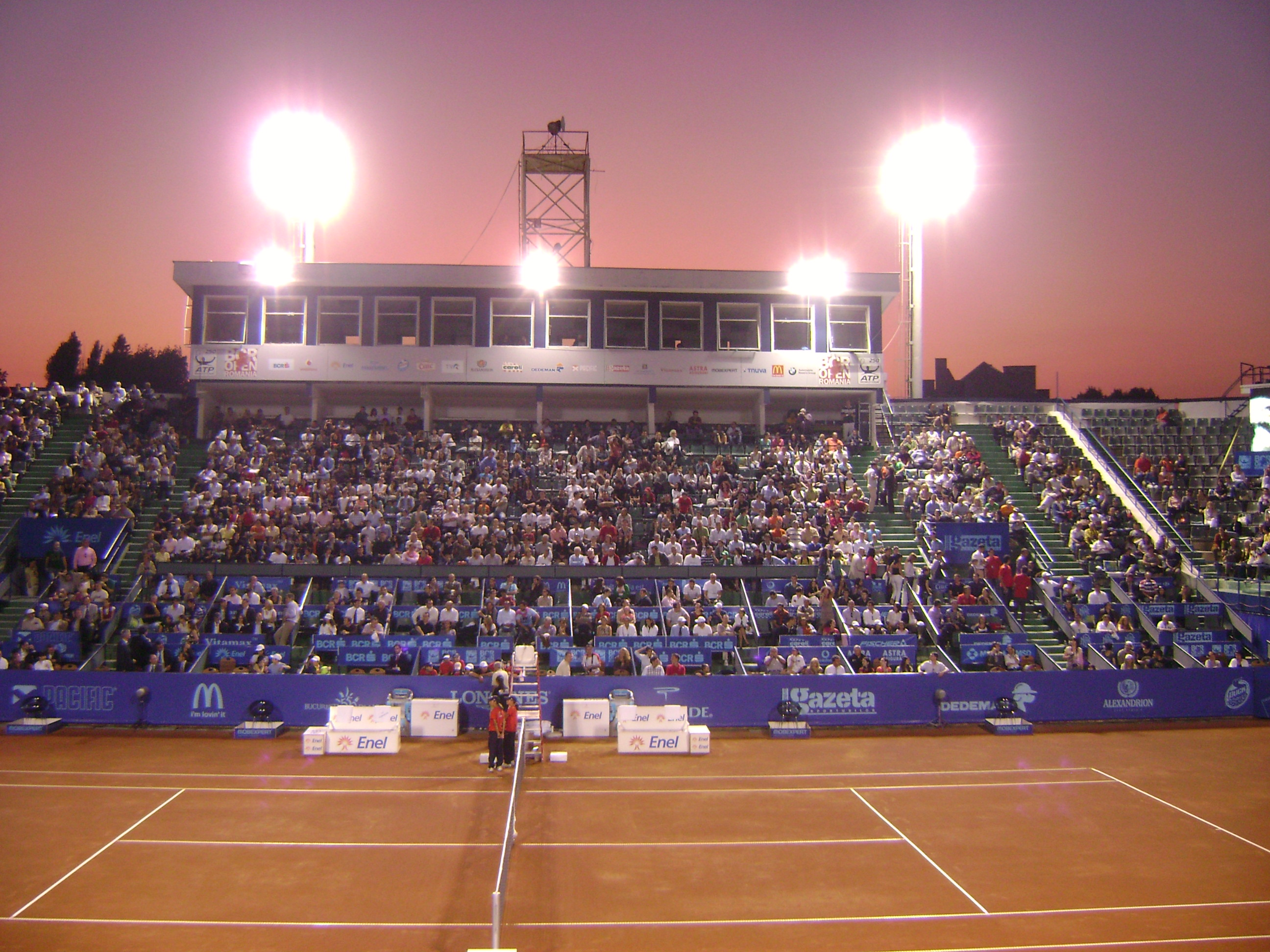 The main court of BNR Arenas at the 2009 BCR Open Romania